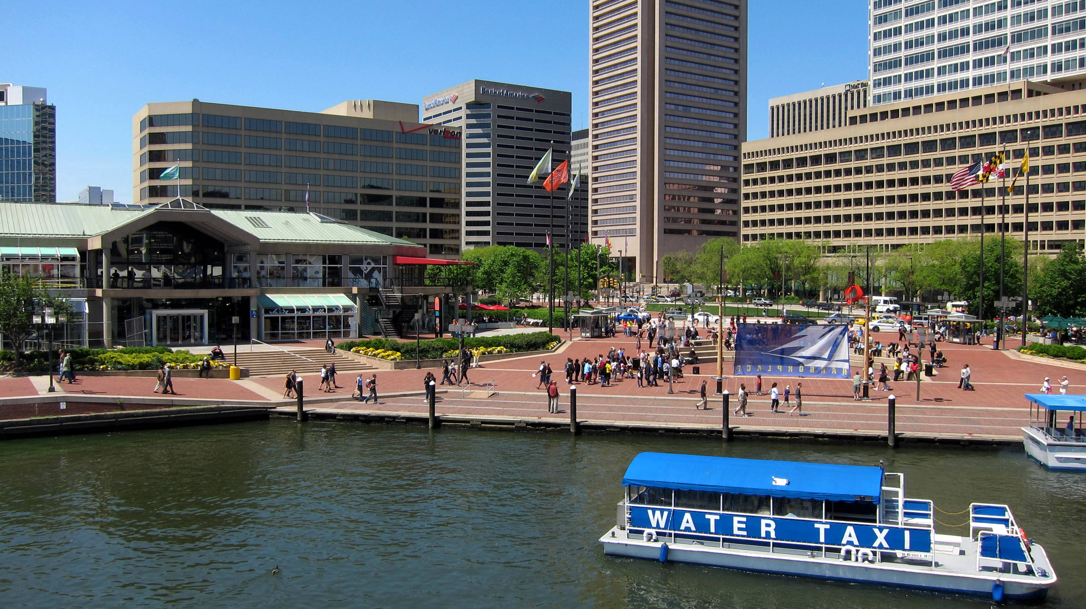 Harborplace at the Inner Harbor in Baltimore, Maryland.